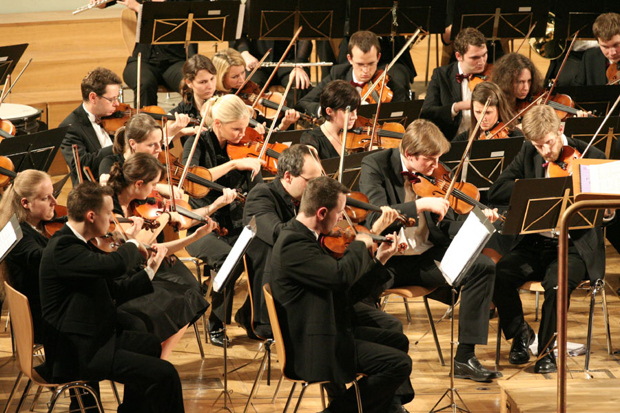 Orchestra of the Munich University of Applied Sciences at a concert in the Great Hall of the Ludwig Maximilian University, Munich